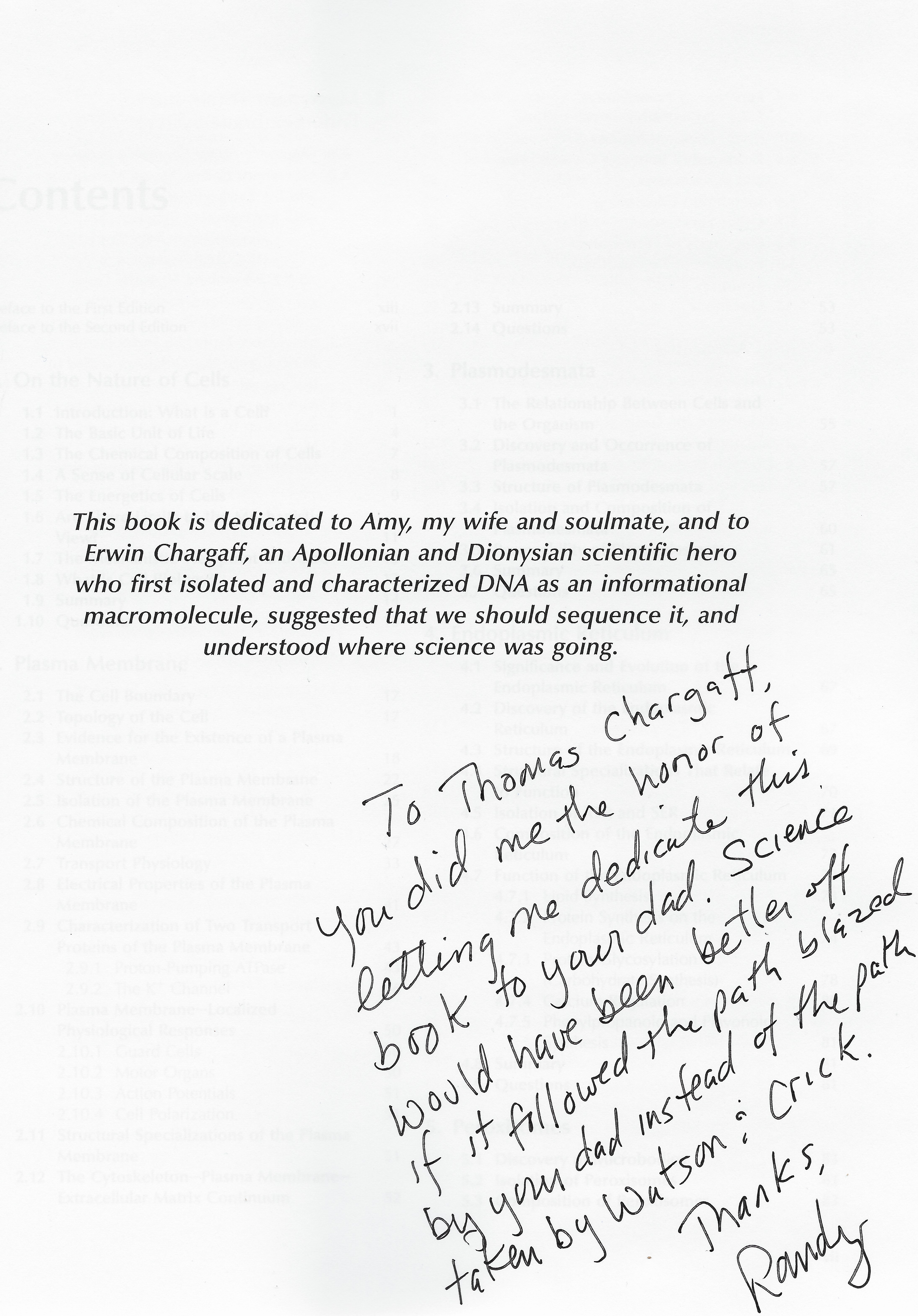 Erwin Chargaff was a pioneer in the study of DNA